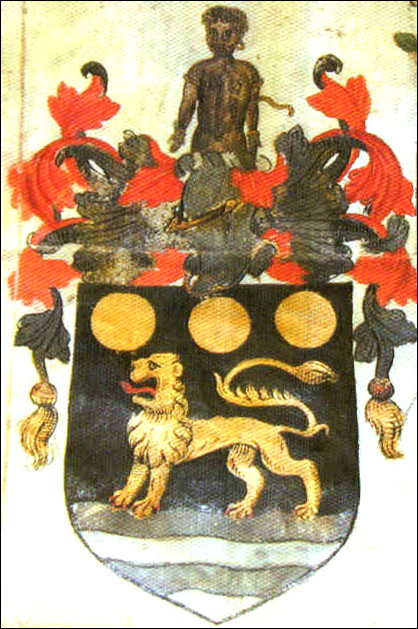 Arms granted to John Hawkins in 1565, for the massive profits he made in the slave trade. Sable on a point wavy, a lion passant or, in chief three bezants, crest, a demi Moor in his proper colour, bound and captive, with annulets in his arms and ears, or. Note the lion in the grant of arms is described as passant, but in the accompanying illustration is statant.